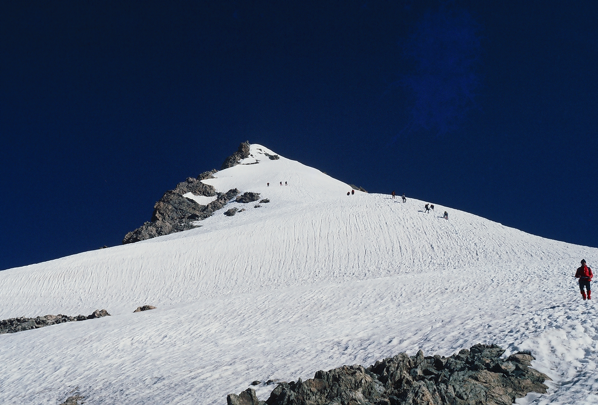 South face, Rateau, Écrins, France.